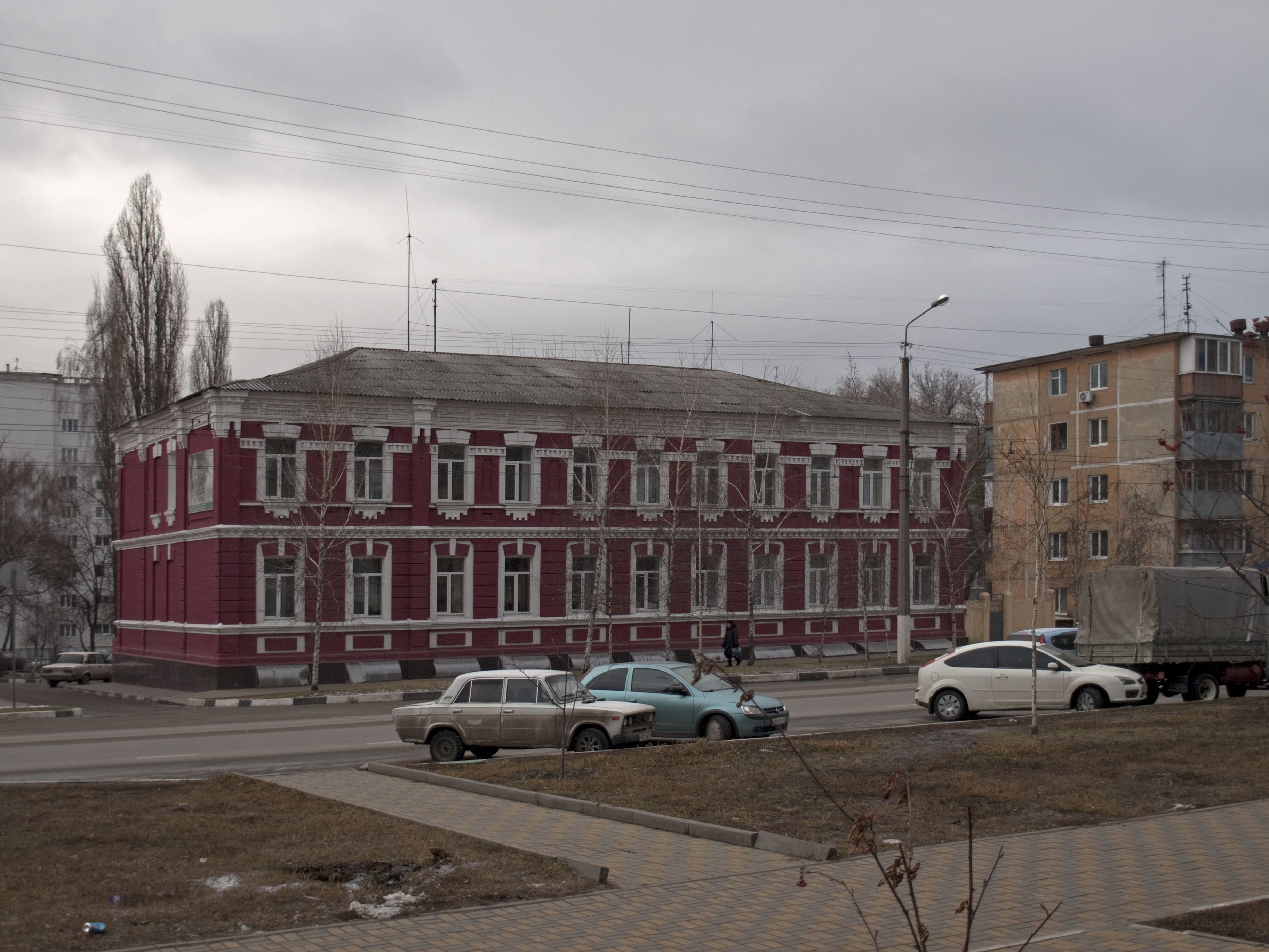 Belgorodsky Avenue 69, Belgorod